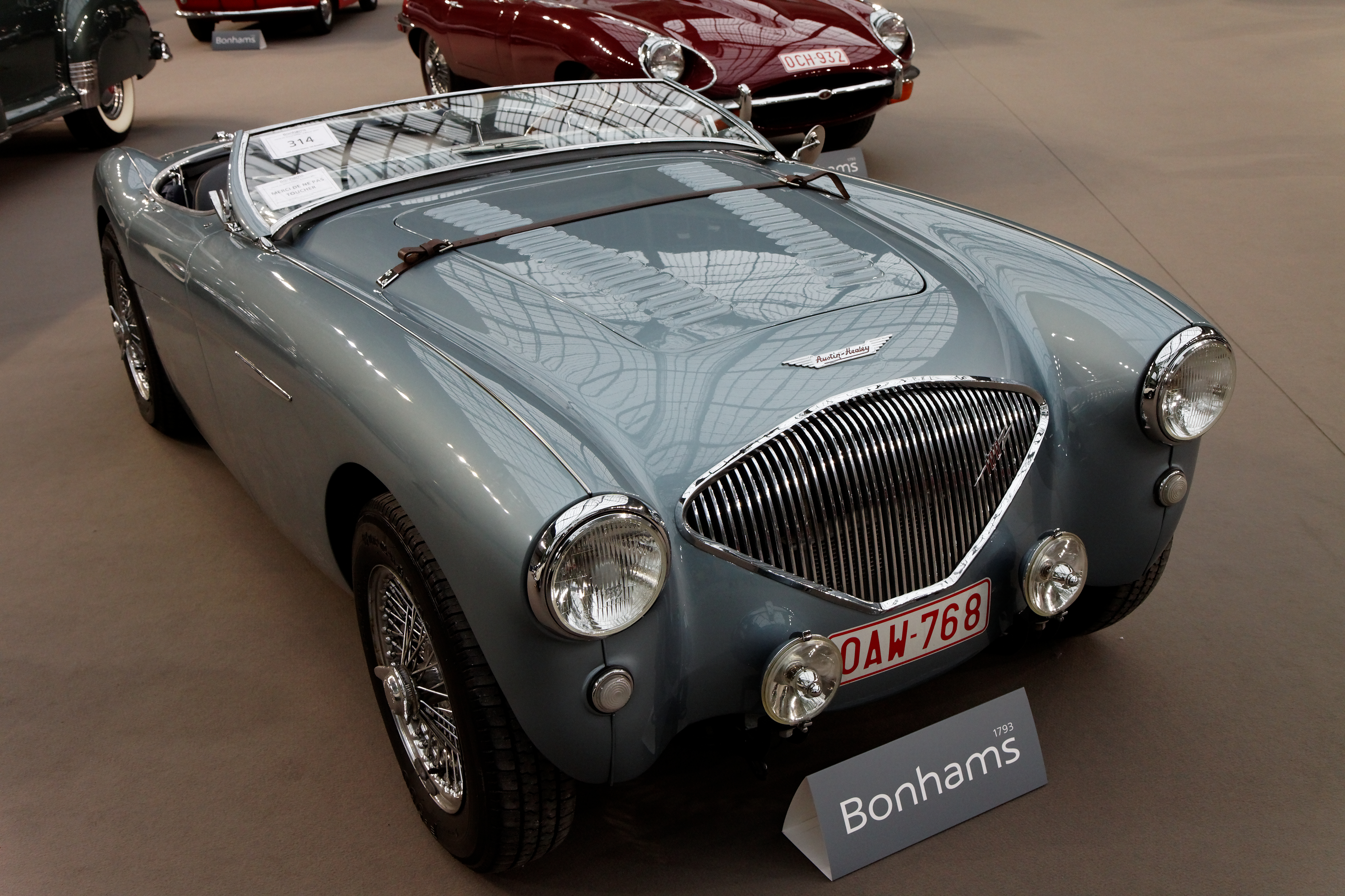 1955 Austin-Healey 100 Roadster during « 110 ans de l'automobile » exhibition in the Grand Palais.